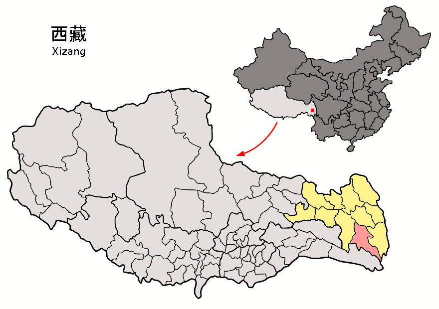 Location of Zogang County (pink) and Qamdo Prefecture (yellow) within Tibet (Xizang) autonomous region of China